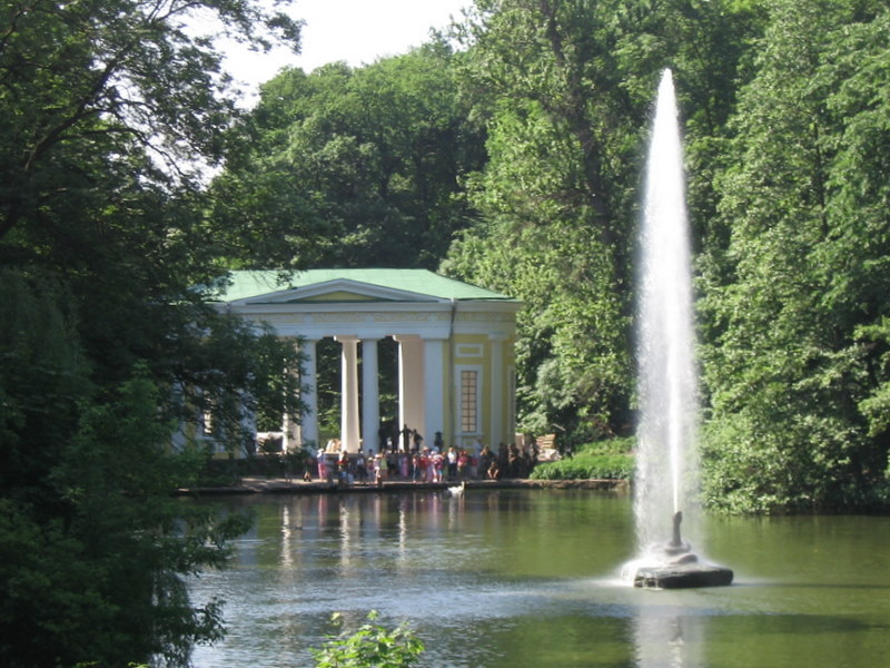 Sofiyivsky Park in Uman.